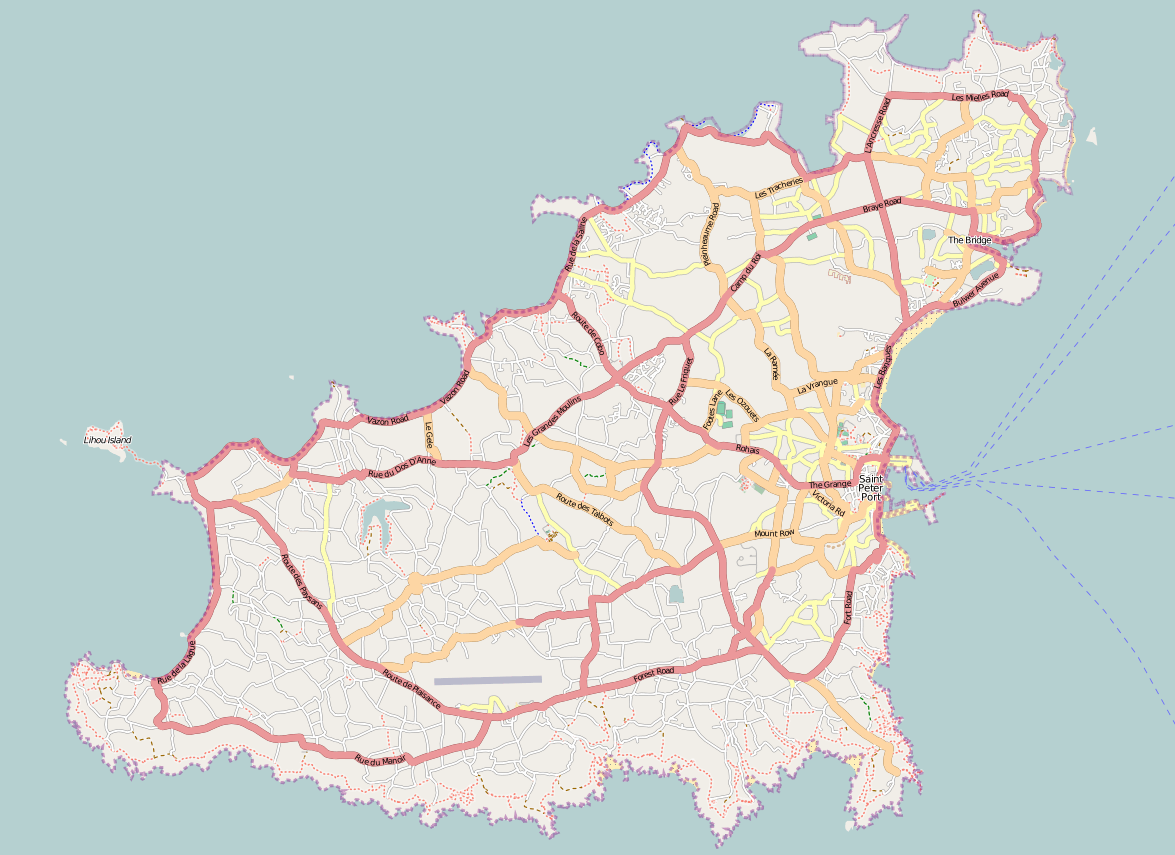 Map of Guernsey Geographic limits of the map: N: 49.51° S: 49.415° W: -2.686° E: -2.485°